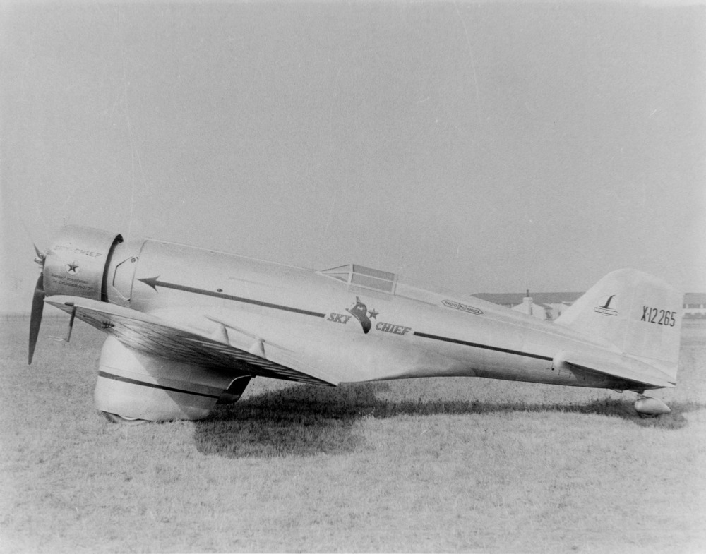 PictionID:42249796 - Title:Northrop Gamma 2A X-12265. Northrop Gamma 2A Texaco - Catalog:15_003043 - Filename:15_003043.tif - ---- Image from the Charles Daniels Photo Collection album "Hawks/Haizlip" which details the exploits of aviators Frank Hawks (who made many record breaking flights) and famous pilots Jim and Mary Haizlip.----PLEASE TAG this image with any information you know about it, so that we can permanently store this data with the original image file in our Digital Asset Management System.----SOURCE INSTITUTION: San Diego Air and Space Museum Archive